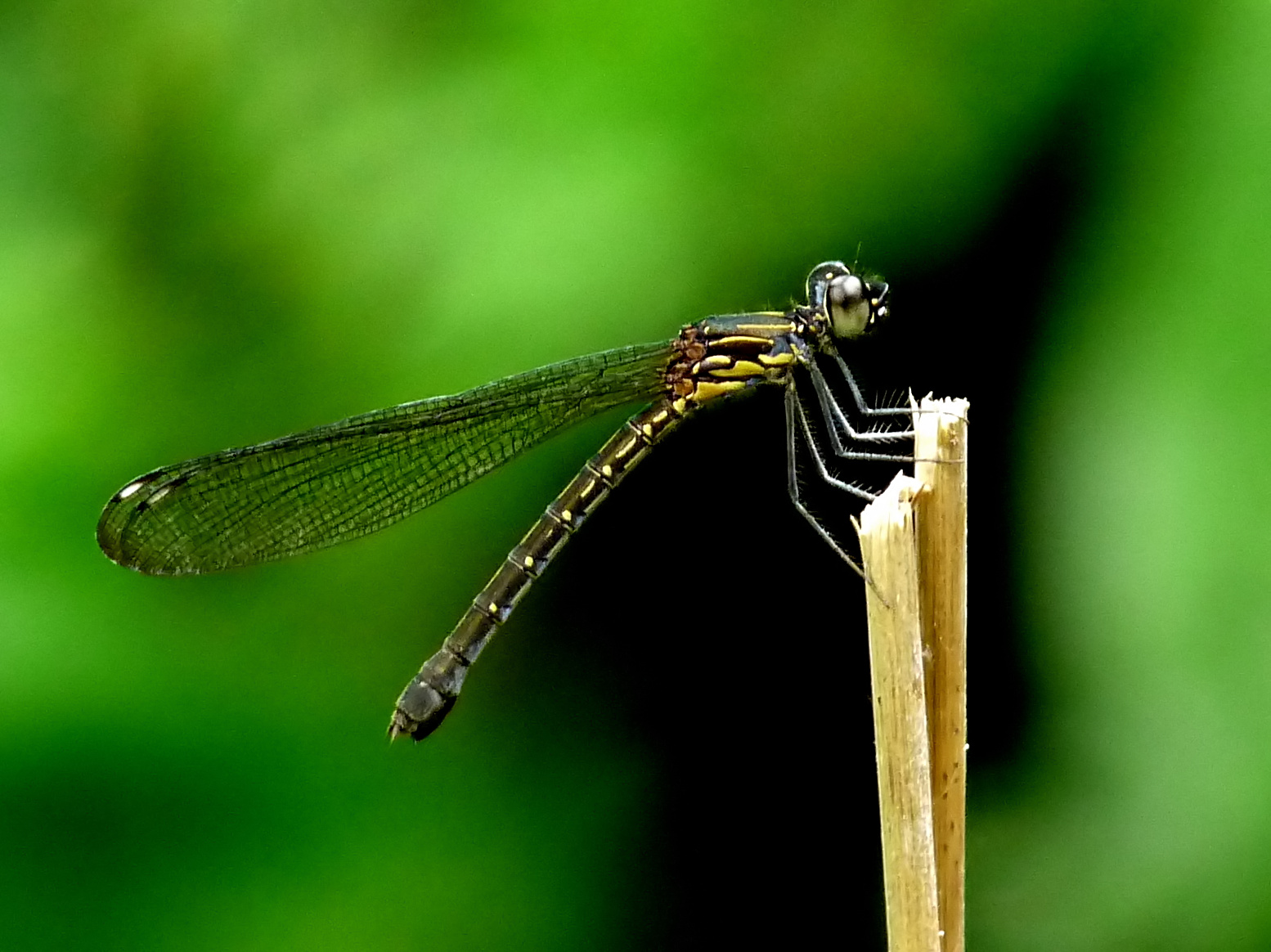 Stream ruby (Rhinocypha bisignata) Female Rhinocypha bisignata, Stream ruby, is a stream breeding species in the family Chlorocyphidae, endemic to India, distributed in South India. It is a small black and red damselfly with red coloured iridescent streaks on wings, which are longer than abdomen. Female is similar to male but markings more yellowish than reddish and yellow-tinted transparent wings. Taken at Kadavoor, Kerala, India.